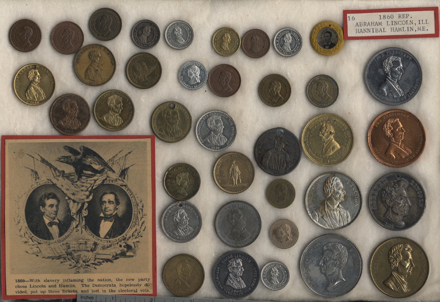 Collection: Cornell University Collection of Political Americana, Cornell University Library Repository: Susan H. Douglas Political Americana Collection, #2214 Rare & Manuscript Collections, Cornell University Library, Cornell University Title: Lincoln-Hamlin Campaign Items, ca. 1860-1861 Political Party: Republican Election Year: 1860 Date Made: ca. 1860-1861 Measurement: Mount: 8 x 12 in.; 20.32 x 30.48 cm Classification: Ephemera Persistent URI: There are no known U.S. copyright restrictions on this image. The digital file is owned by the Cornell University Library which is making it freely available with the request that, when possible, the Library be credited as its source.